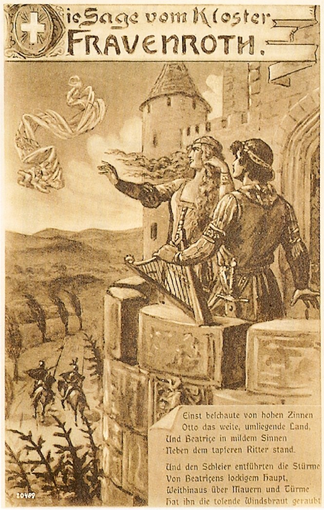 Legend of founding of Kloster Frauenroth by count Otto von Botenlauben und his wife Beatrix (postcard of 1920)